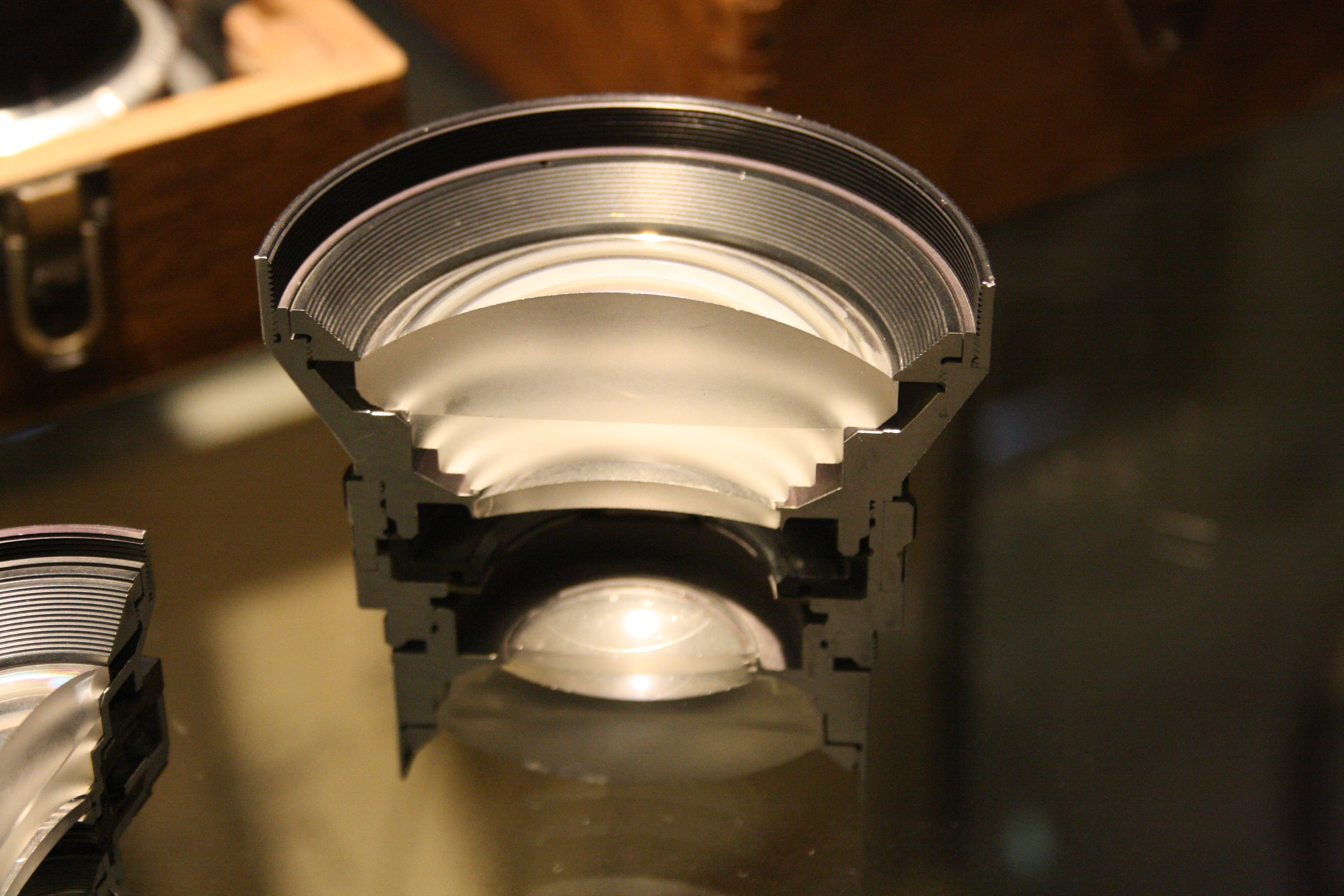 Cutaway ot a Berthiot lense in the French Museum of Photography in Bièvres, Essonne, France.